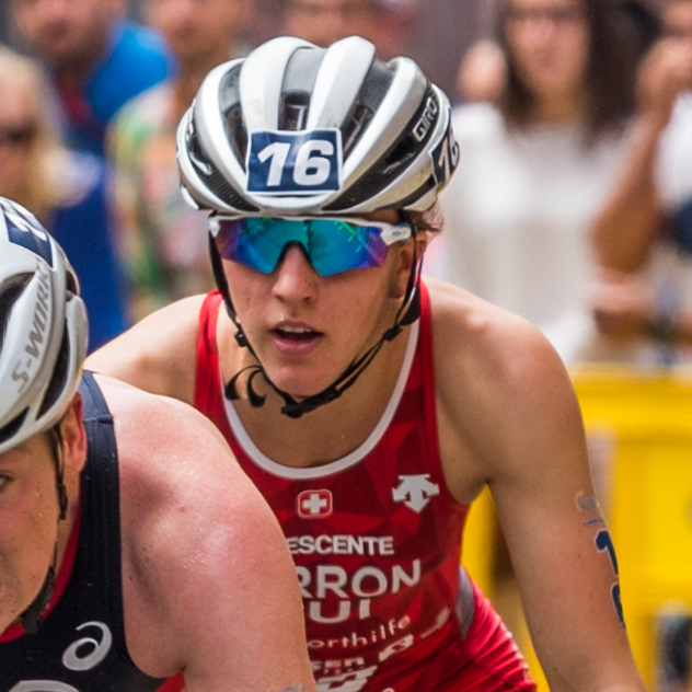 Julie Derron at 2018 ETU Triathlon Cup Gran Canaria